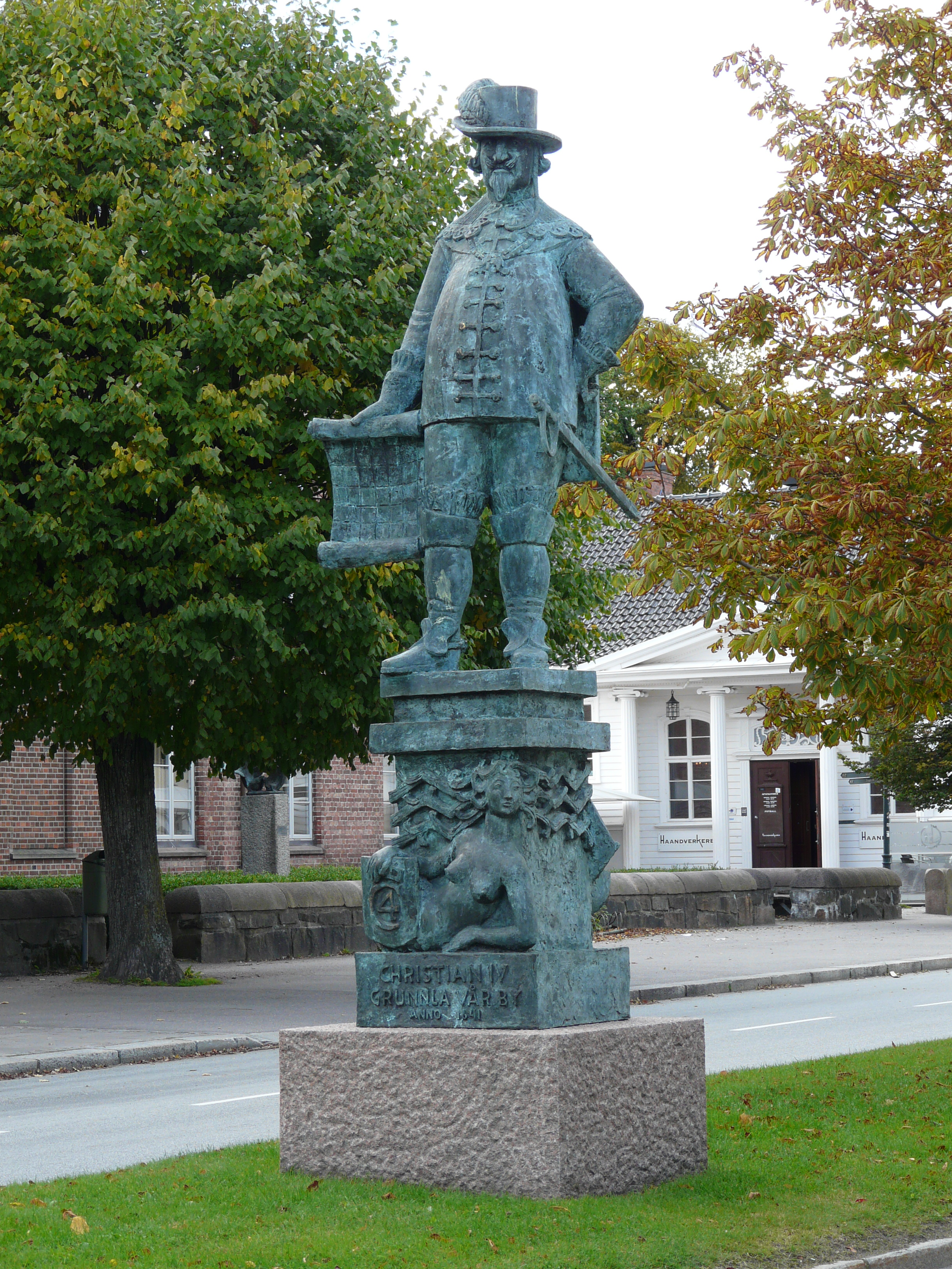 Monument King Christian IV. Kristianssand, Noreg.